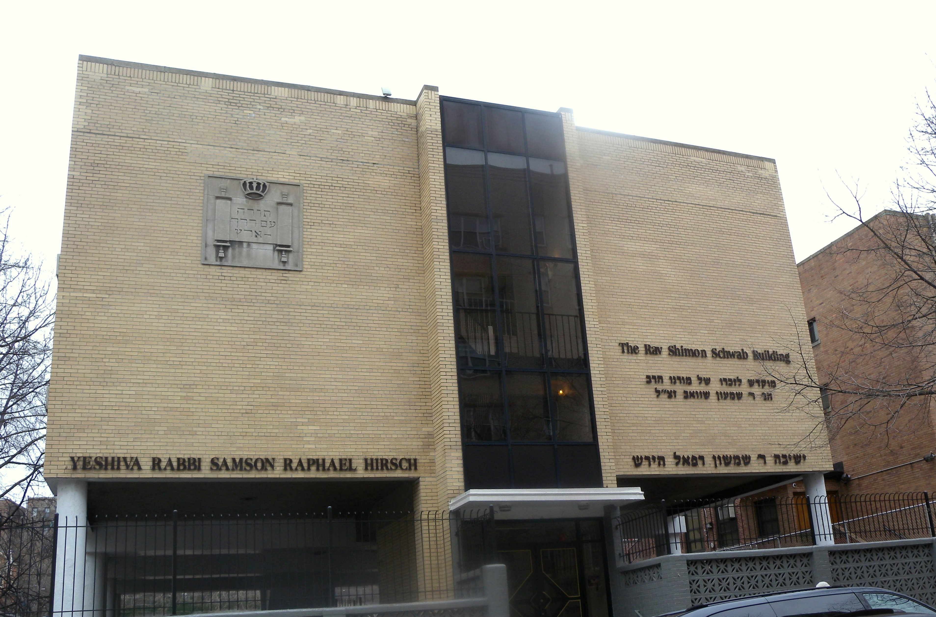 Looking east at the Shimon Schwab building on a cloudy midday.